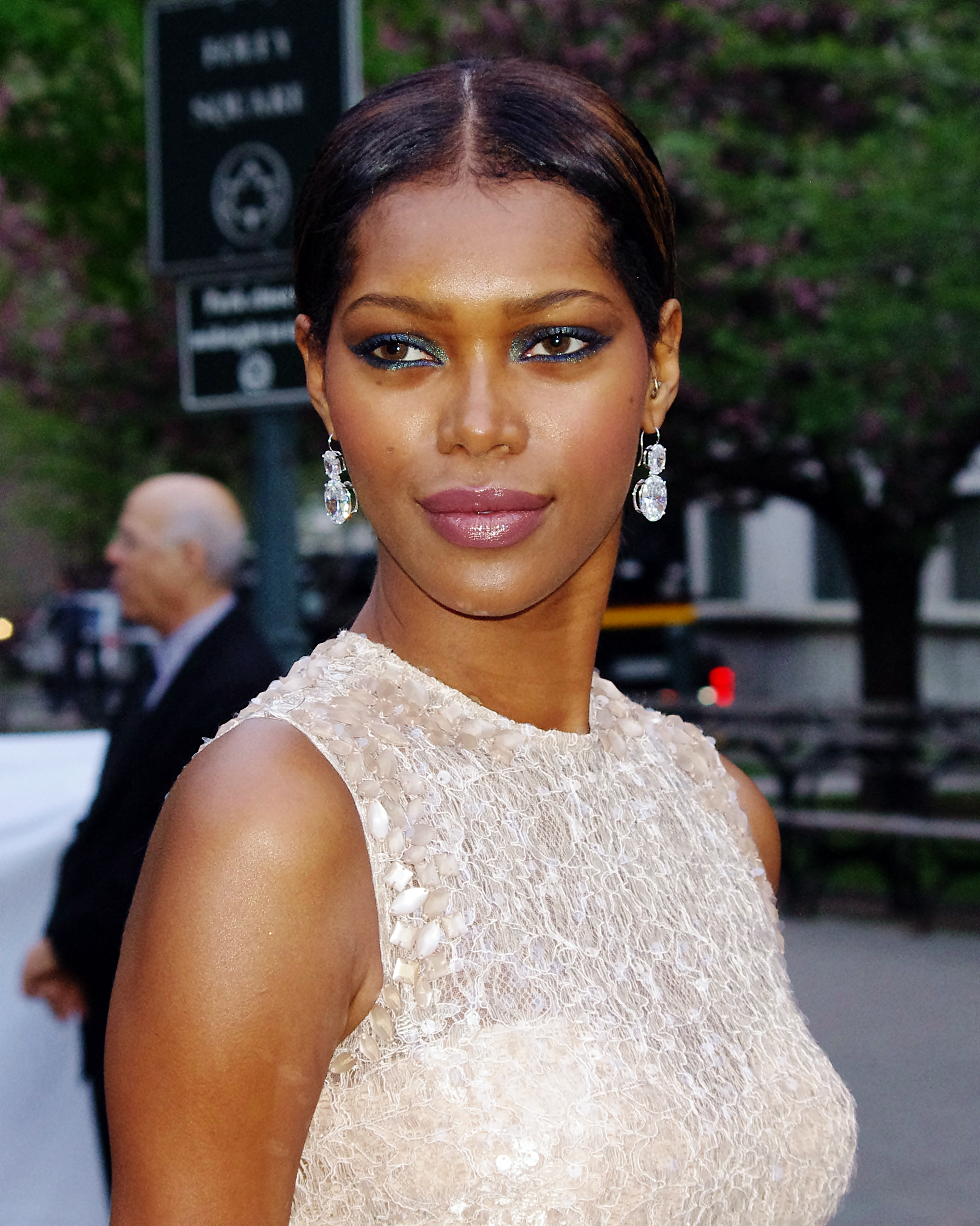 Jessica White at the Vanity Fair party for the 2012 Tribeca Film Festival.